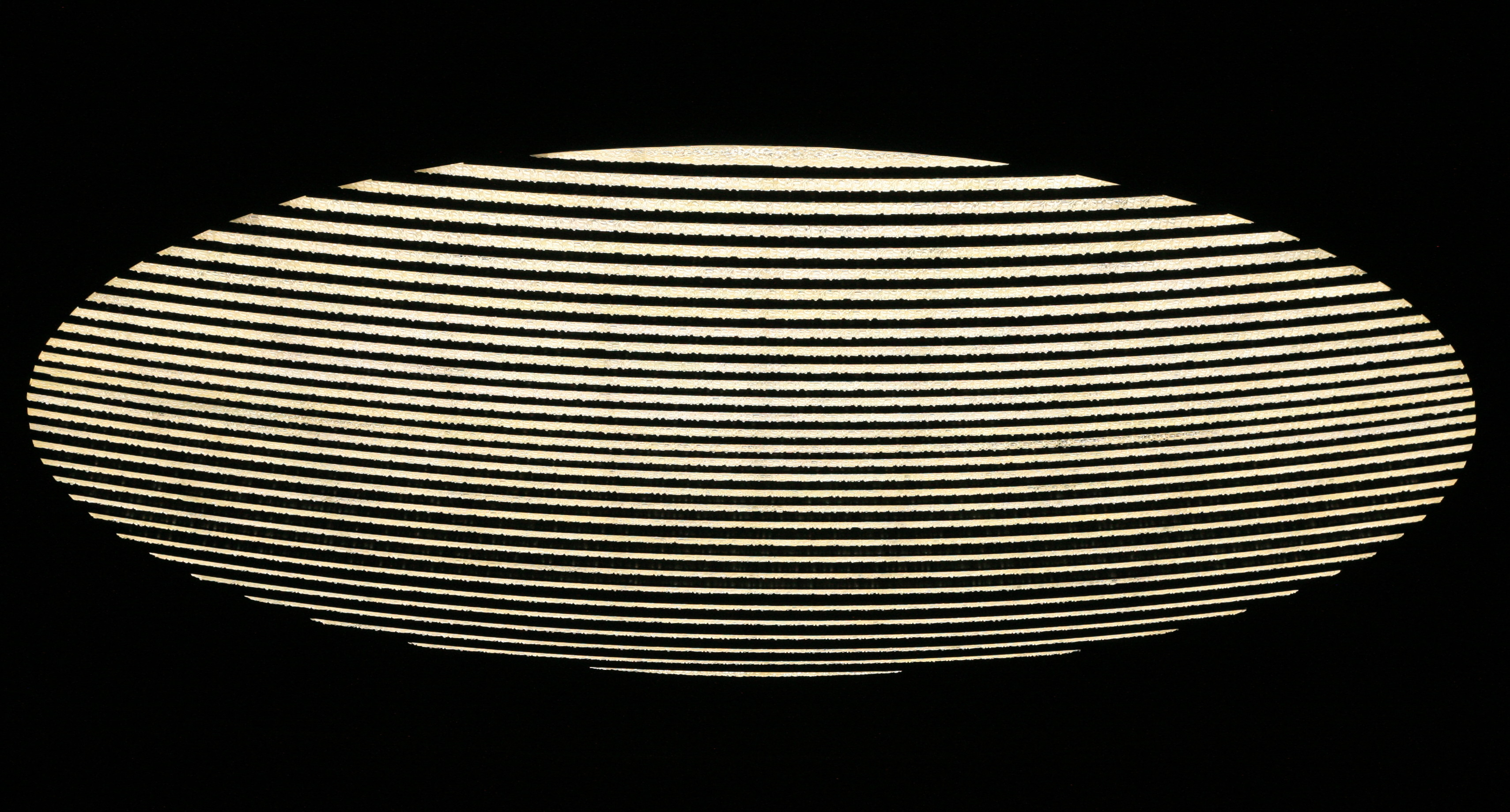 The chandelier in the auditorium of the main stage of Oslo Opera House.